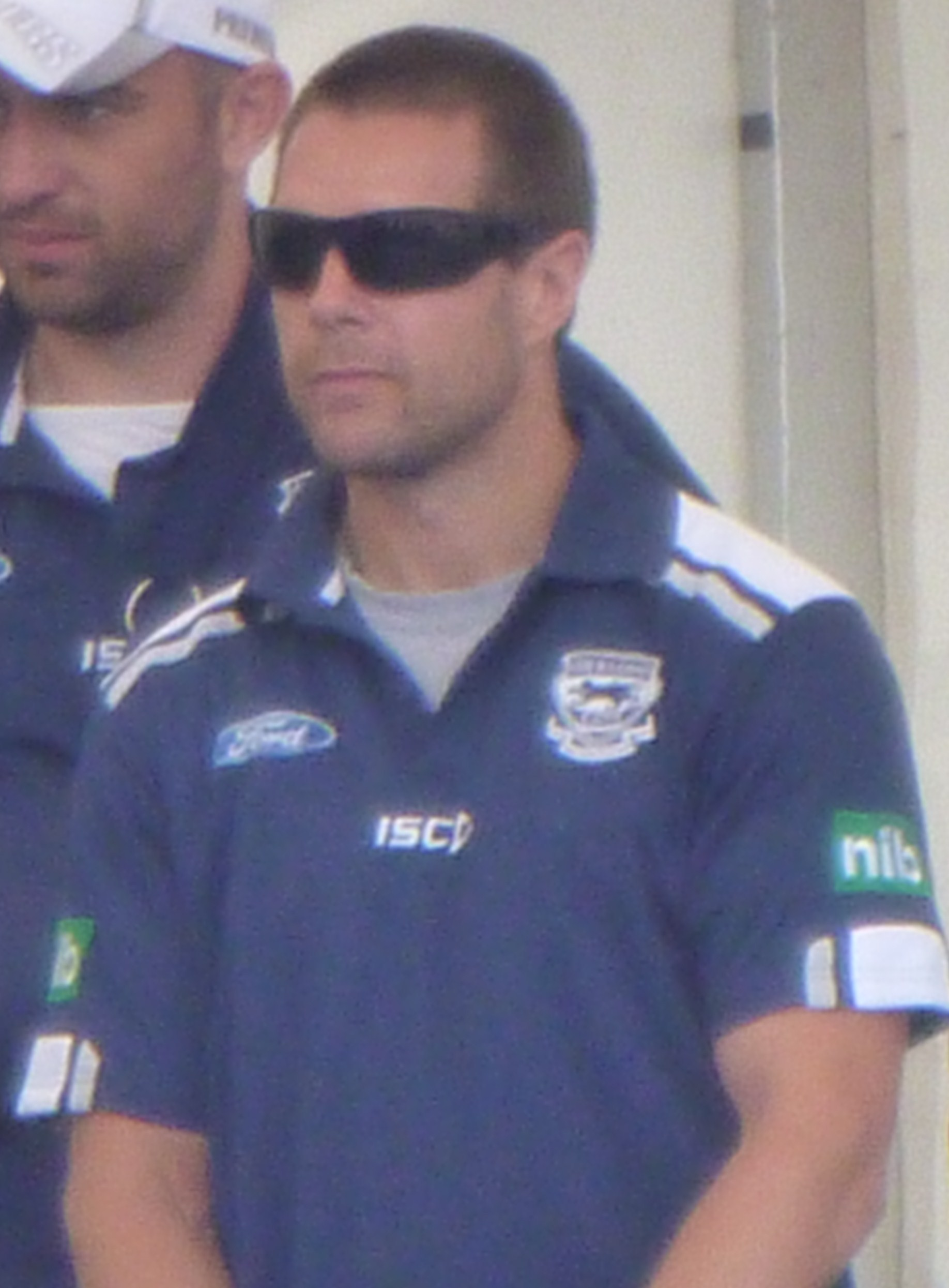 David Wojcinski at the Geelong Football Club's 2011 AFL Premiership victory parade in Geelong, Victoria, Australia.